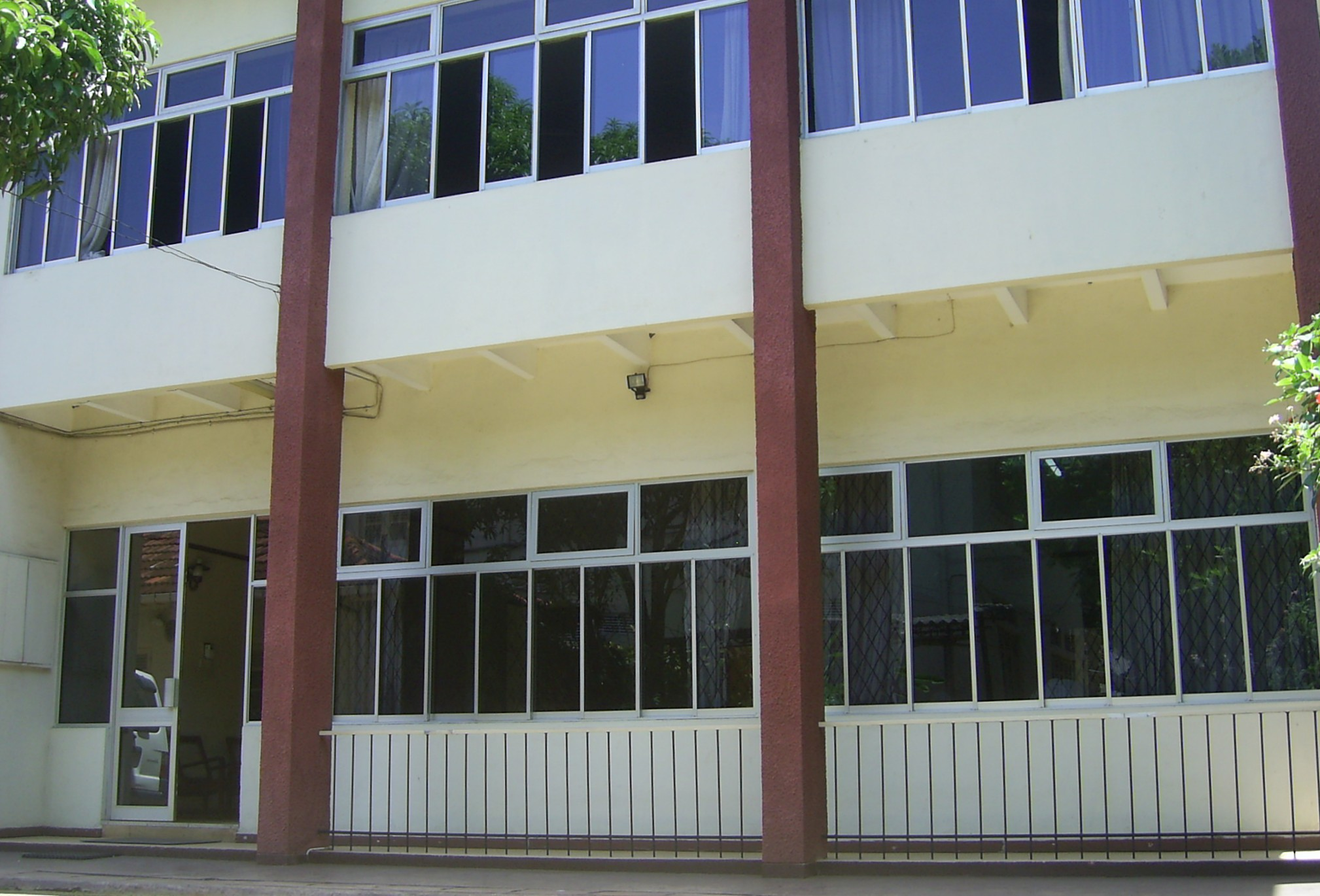 This picture was taken by my digital camera on 19/08/2008 in Colombo, Sri Lanka.